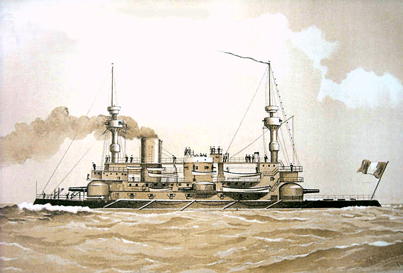 Painting of the French battleship Hoche, done by William Frederick Mitchell for the 1890 edition of Brassey's Naval Annual.